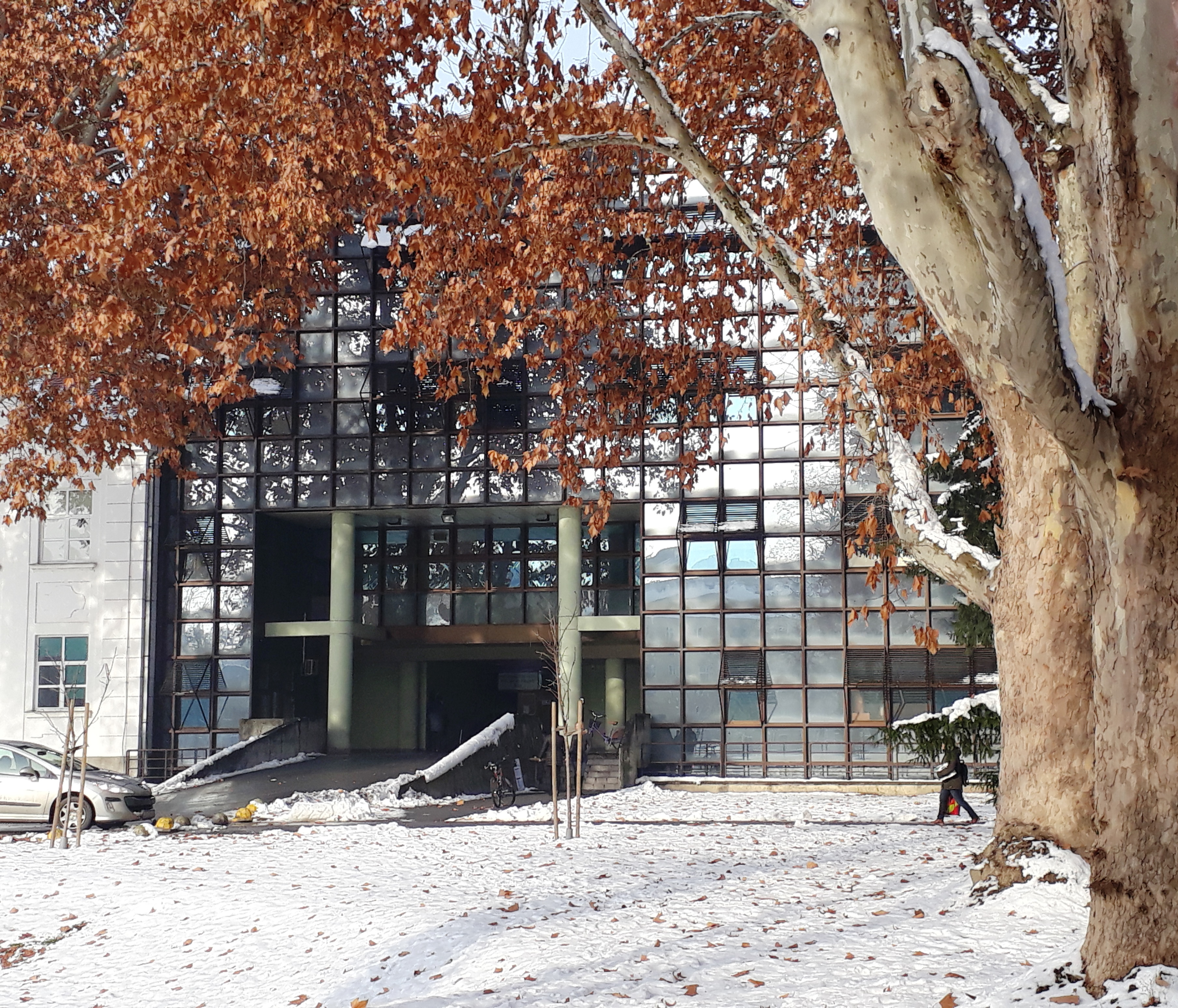 Faculty of Medicine, Strossmayer University of Osijek. Lecture halls in the University Hospital Osijek Campus.